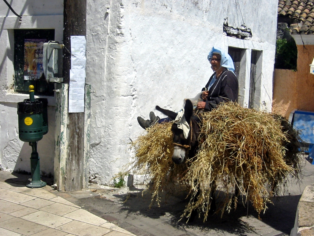 Woman riding on a donkey, Liapades, Corfu, Greece